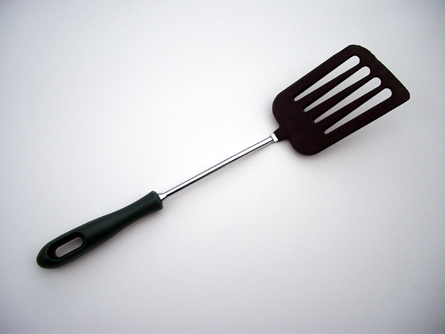 A common spatula design.